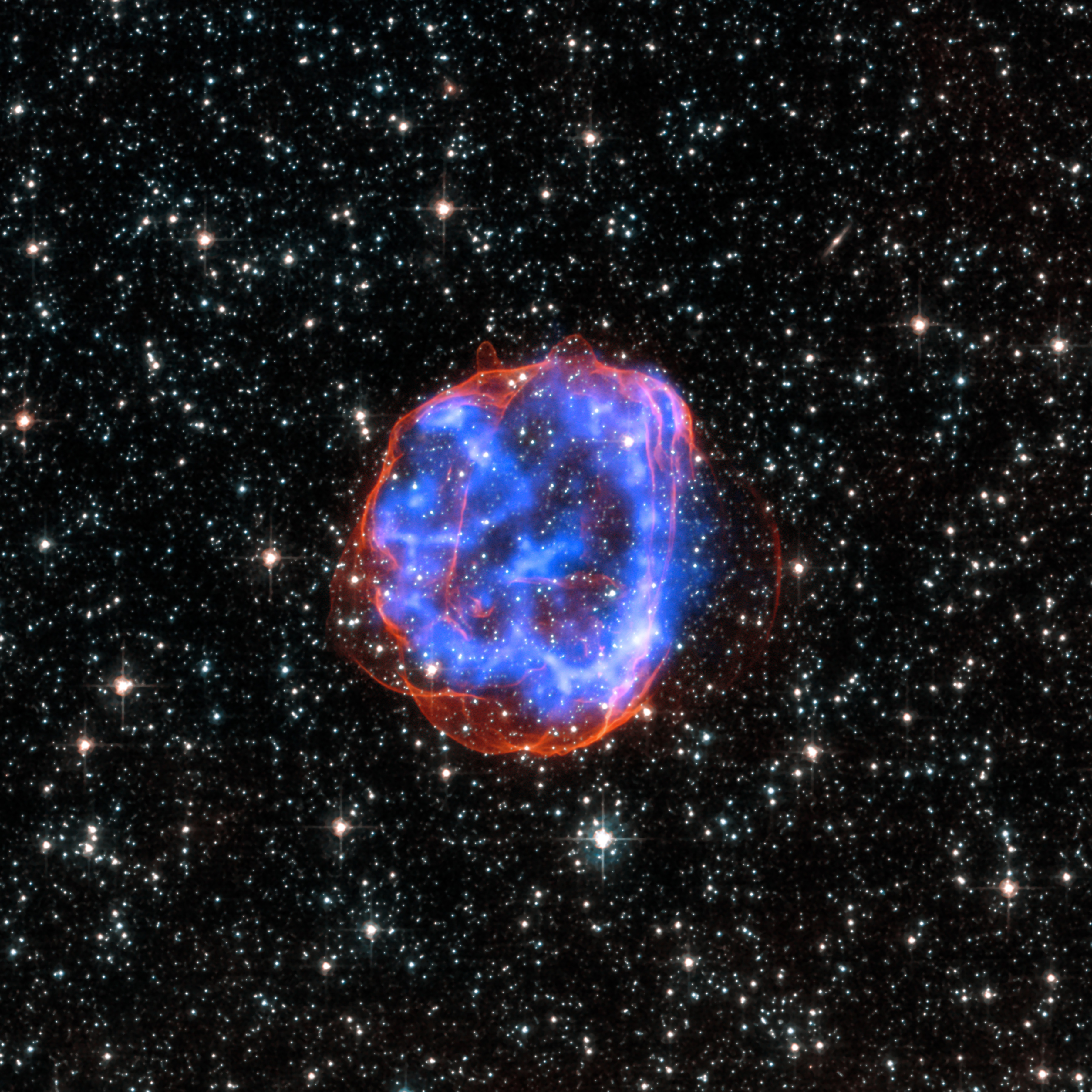 X-ray & Optical Images of SNR E0519-69.0 - When a massive star exploded in the Large Magellanic Cloud, a satellite galaxy to the Milky Way, it left behind an expanding shell of debris called SNR 0519-69.0. Here, multimillion degree gas is seen in X-rays from Chandra (blue). The outer edge of the explosion (red) and stars in the field of view are seen in visible light from Hubble.